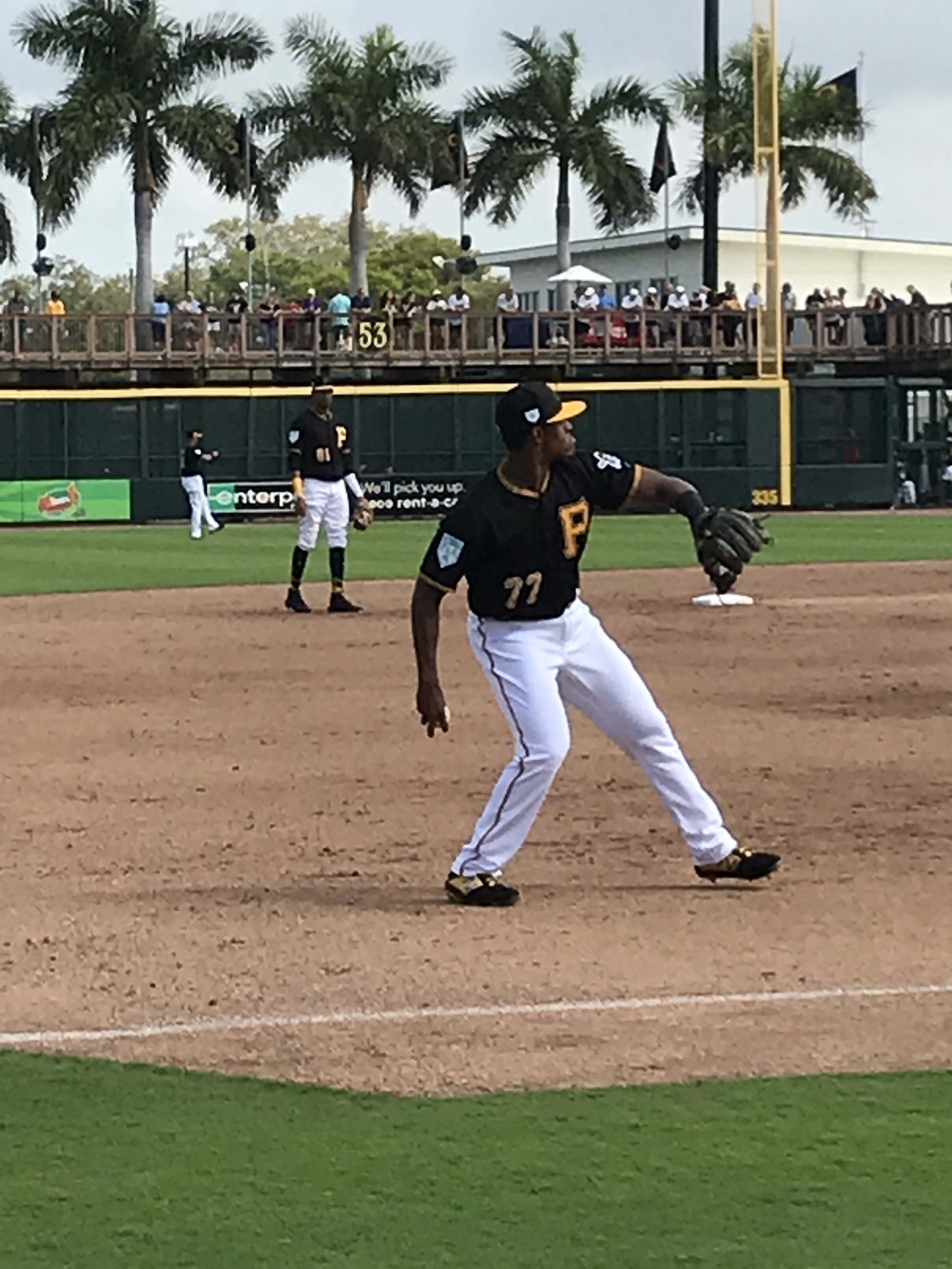 Ke'Bryan Hayes 2/24/2019